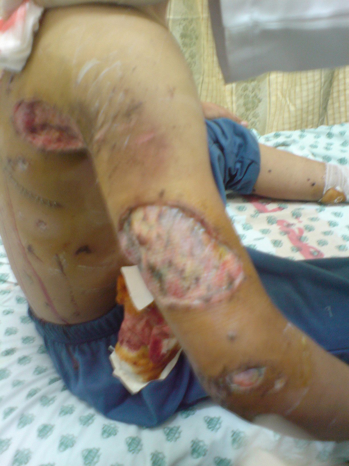 15 year-old Ayman al-Najar at the Al-Nasser Hospital in Khan Younis. He sustained severe injuries from white phosphorus after Israeli bombing of the village Khoza'a. [1][2]